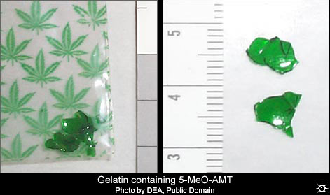 A picture of a sample of 5-MeO-AMT. Found on Erowid[1], but taken from the DEA.